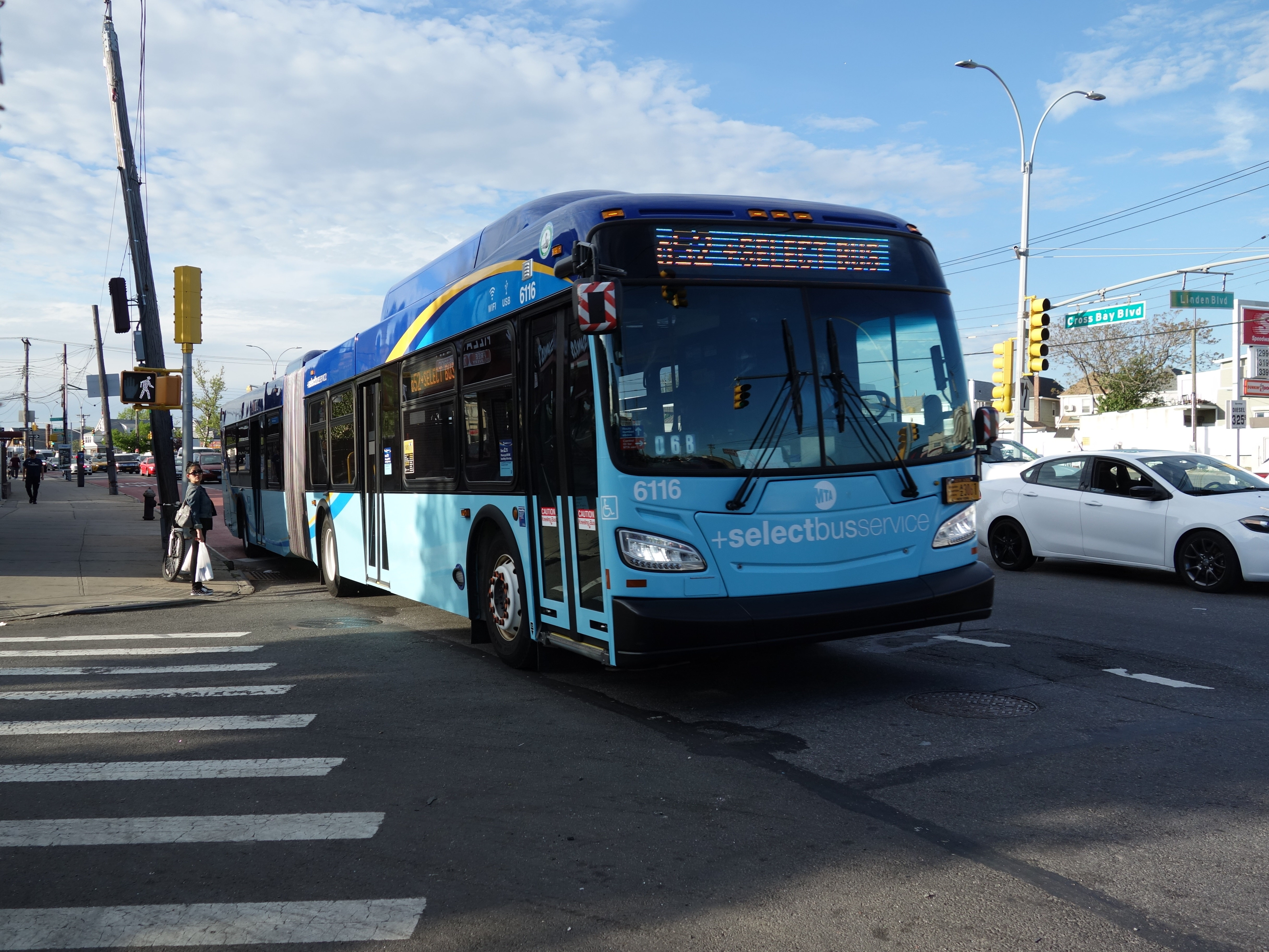 An Arverne-bound Q52 SBS bus traveling south on Cross Bay Boulevard at Linden Boulevard / Gold Road in Ozone Park, Queens.